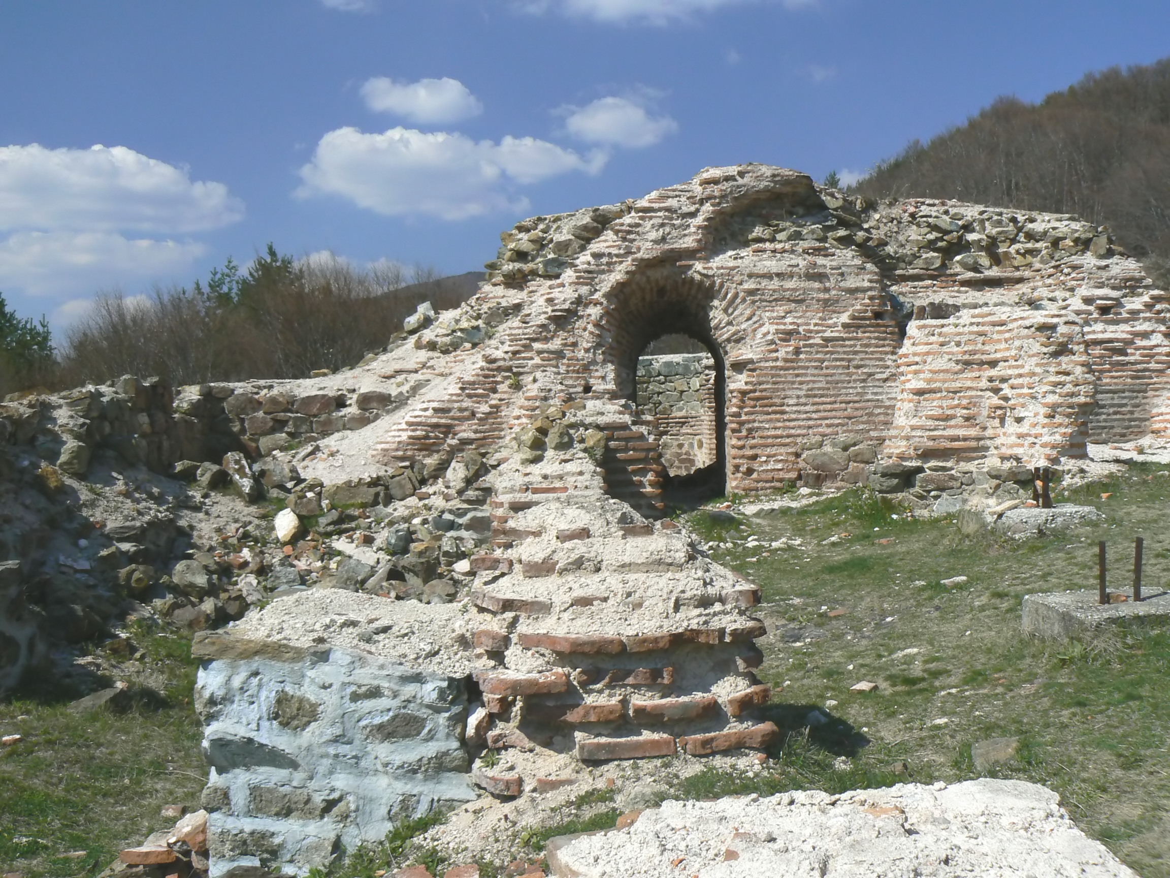 Left (from inside) arch of Trayanovi vrata fortress